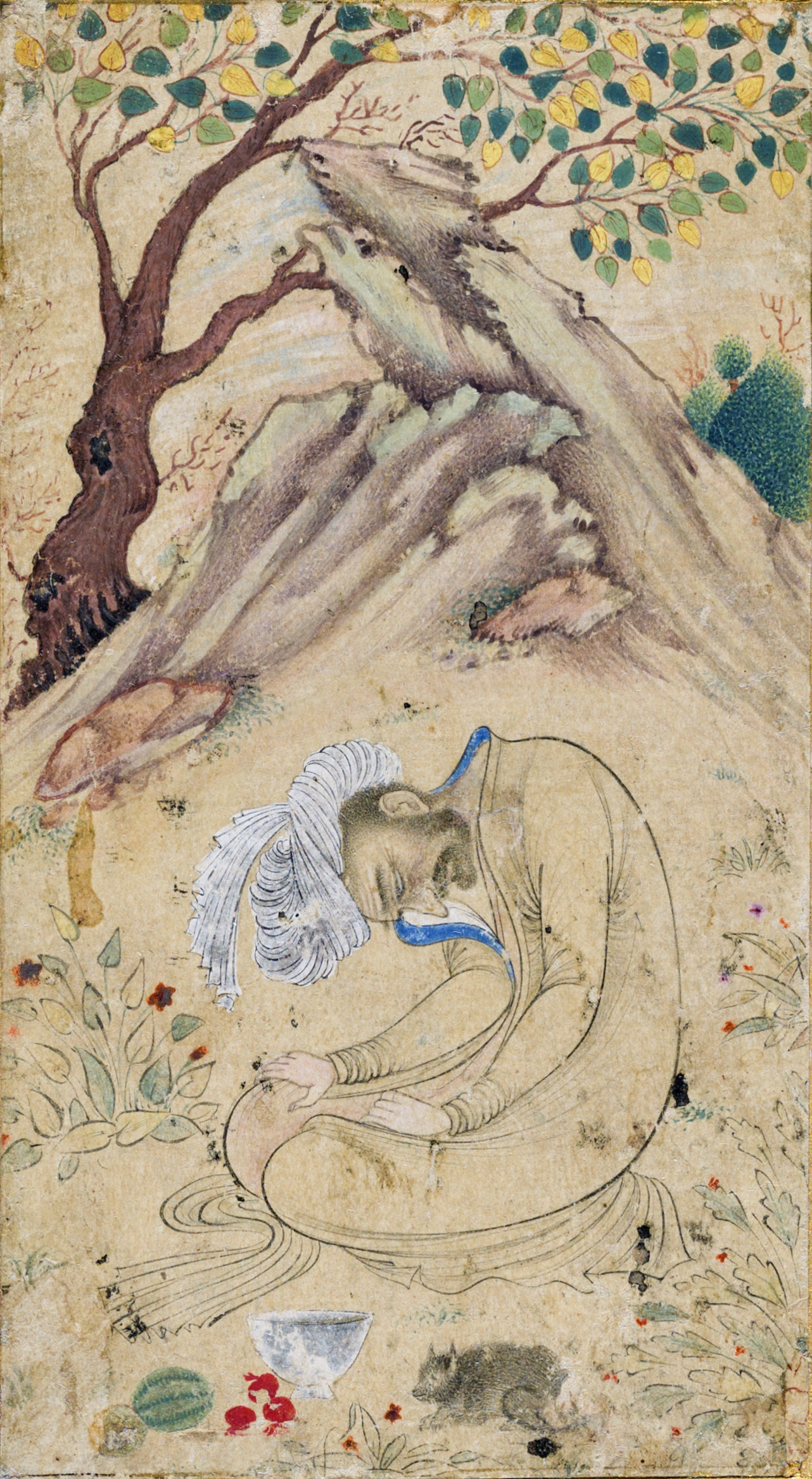 Iran, Isfahan, circa 1650-1660 Manuscripts Ink and watercolor washes on paper The Nasli M. Heeramaneck Collection, gift of Joan Palevsky (M.73.5.582) Islamic Art